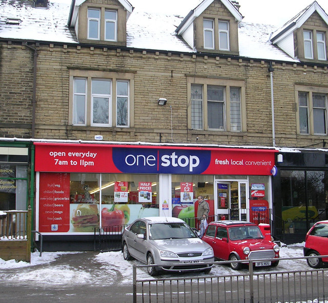 One Stop - Bradford Road